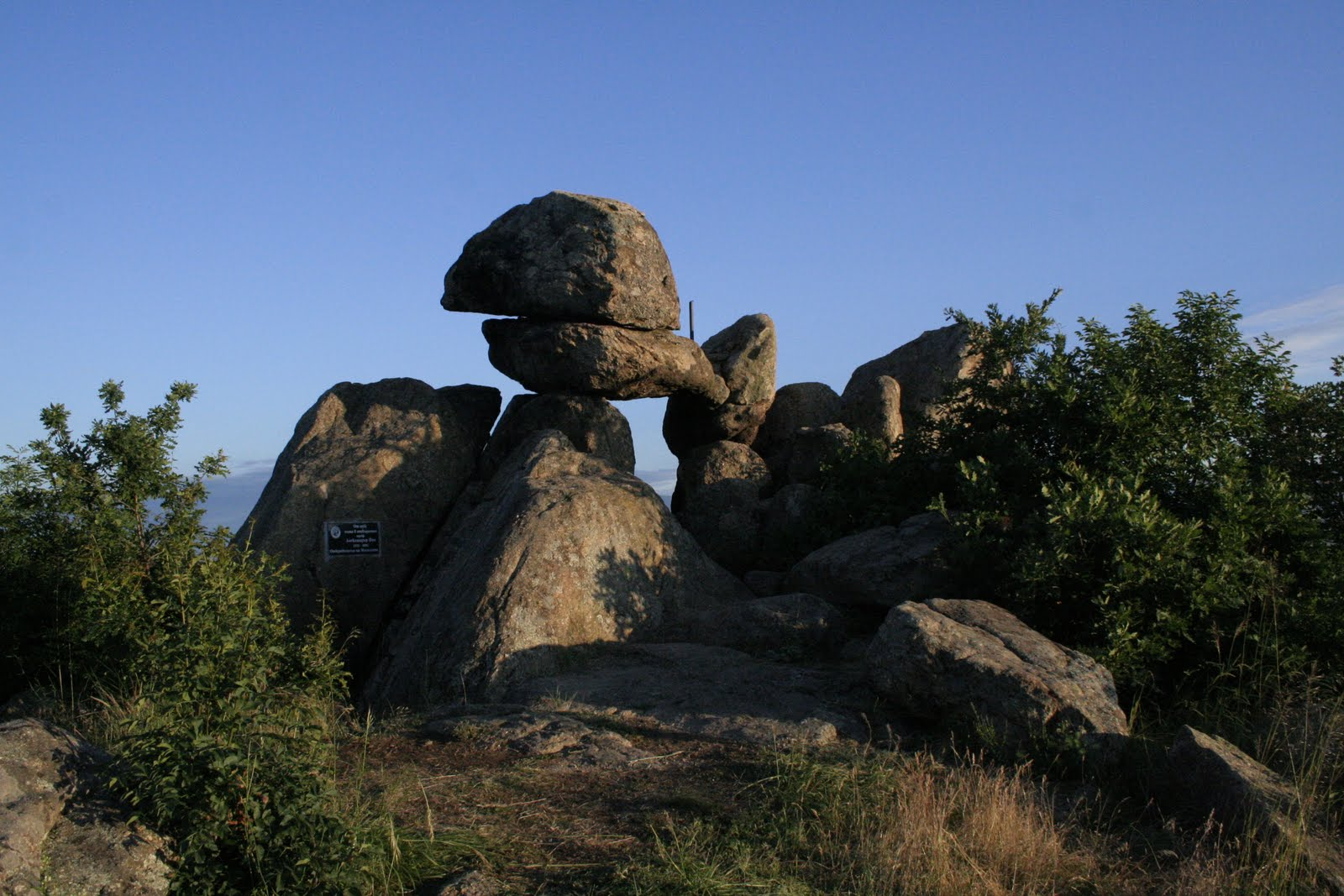 Buzovgrad Megalith